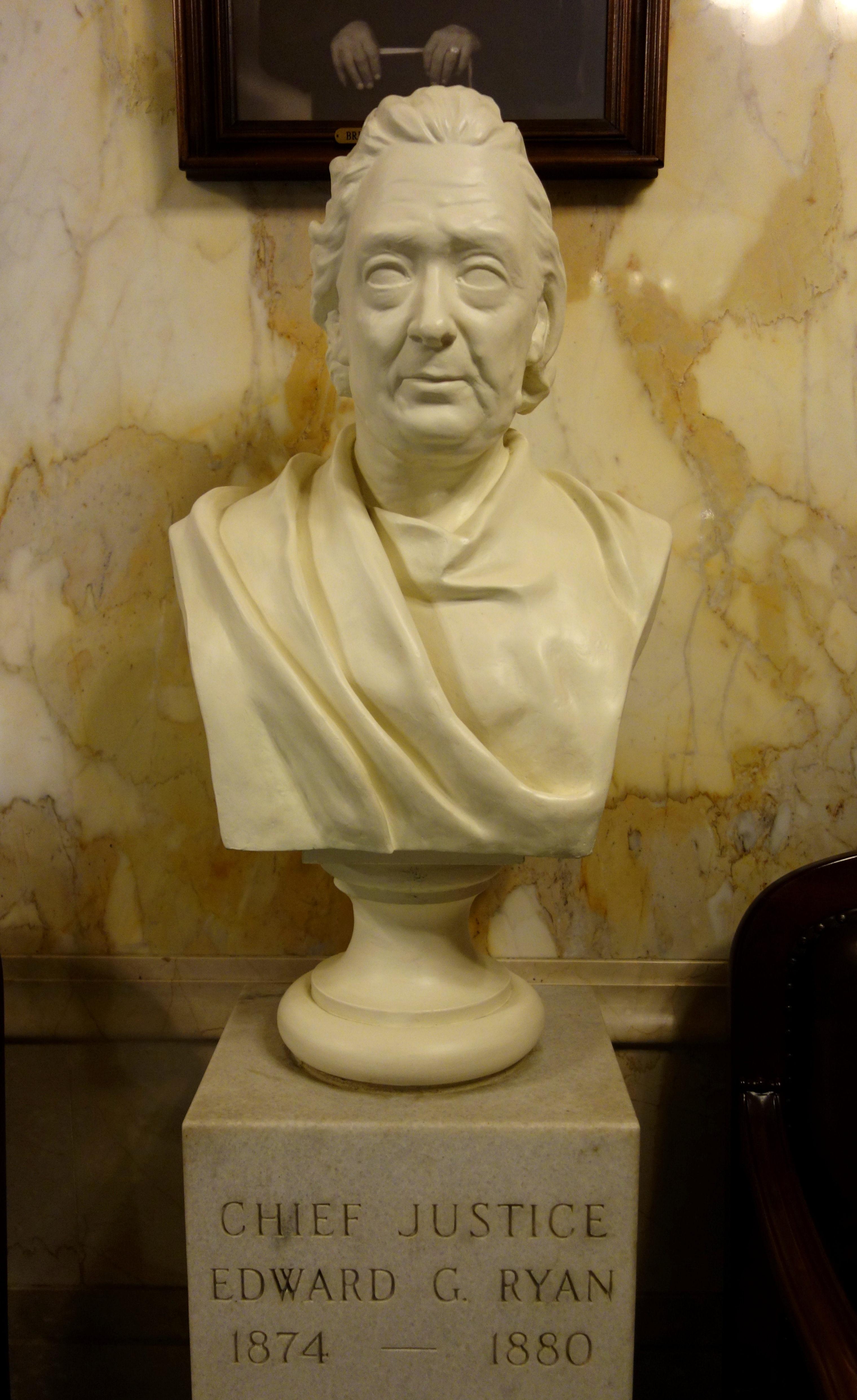 Bust of Edward George Ryan - Wisconsin Supreme Court, Madison, Wisconsin, USA. Artist unknown. This artwork is in the public domain because it was first published in the United States before 1923.